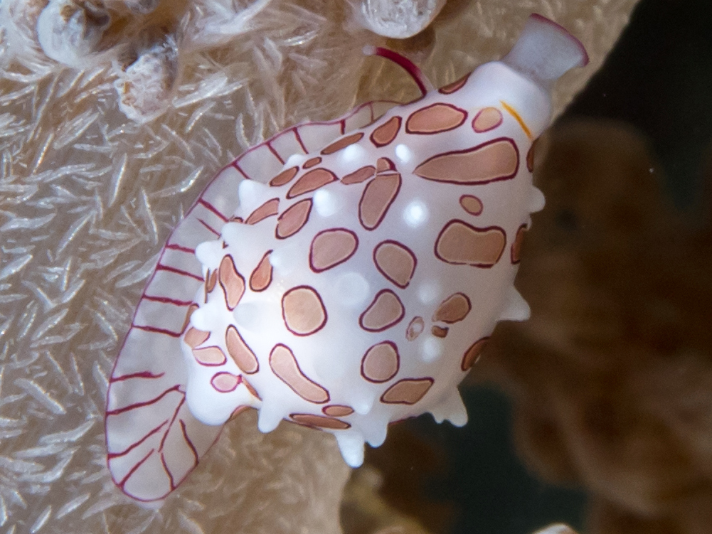 Diminovula margarita - Morotai, Indonesia